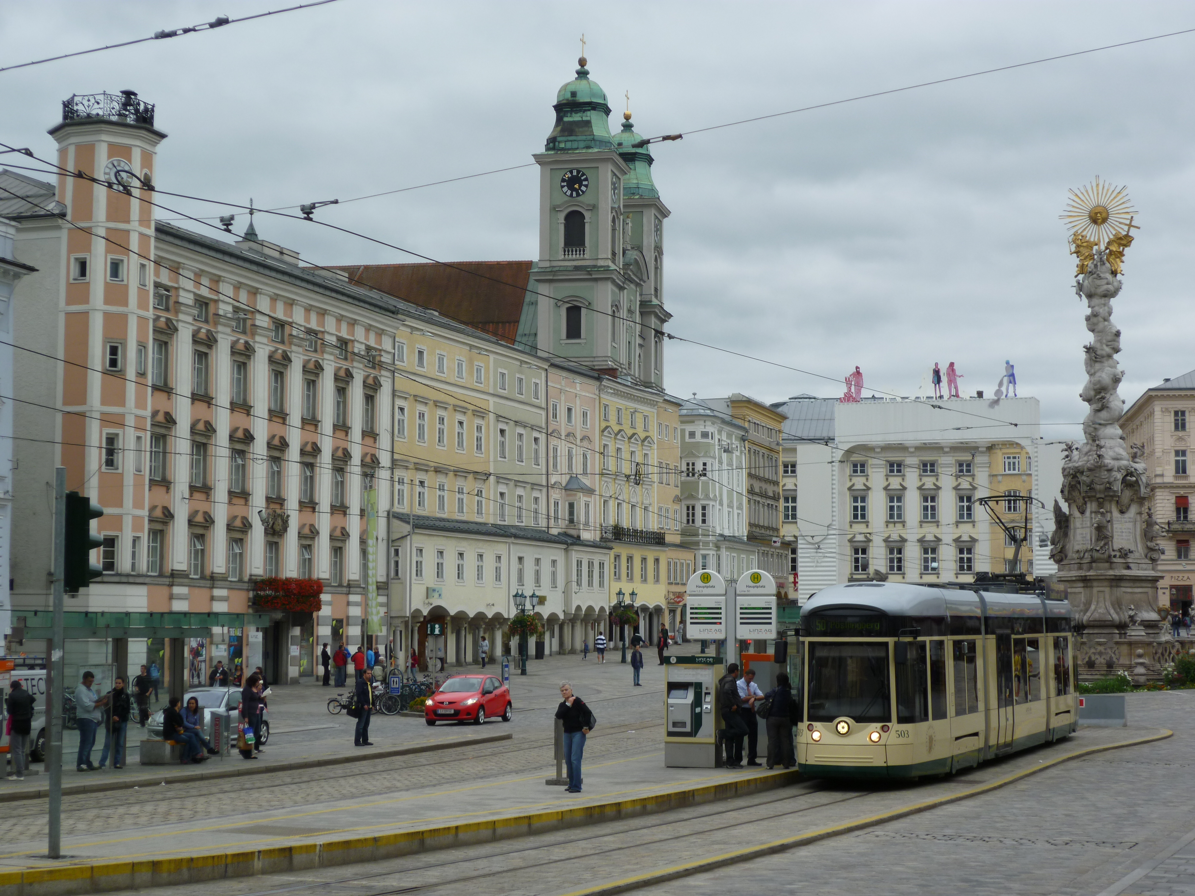 Linz main square